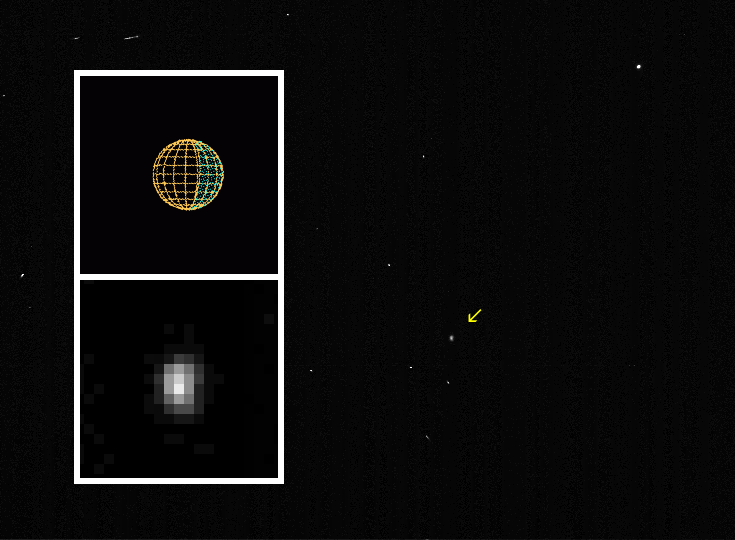 Image of the moon Himalia taken by the Cassini spacecraft on 19 December 2000.